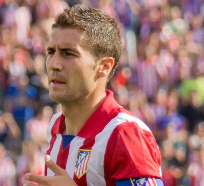 Gabi Fernández, footballer of Atlético de Madrid.